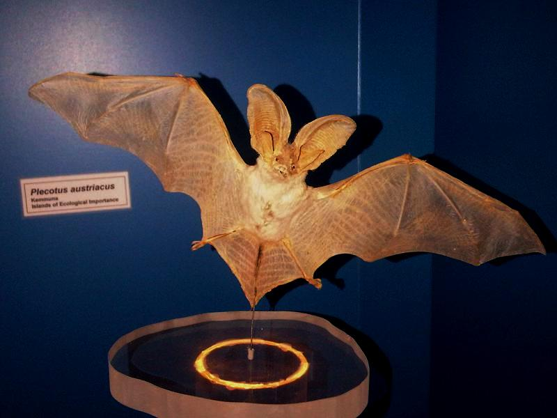 Taxidermied grey long-eared bat (Plecotus austriacus) at the National Museum of Natural History, Vilhena Palace, Republic of Malta.